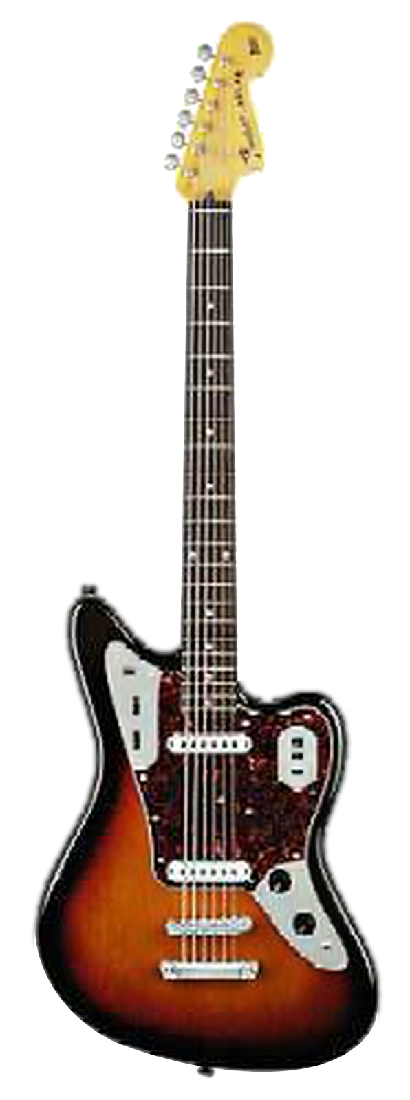 Fender Jaguar Bariton Custom